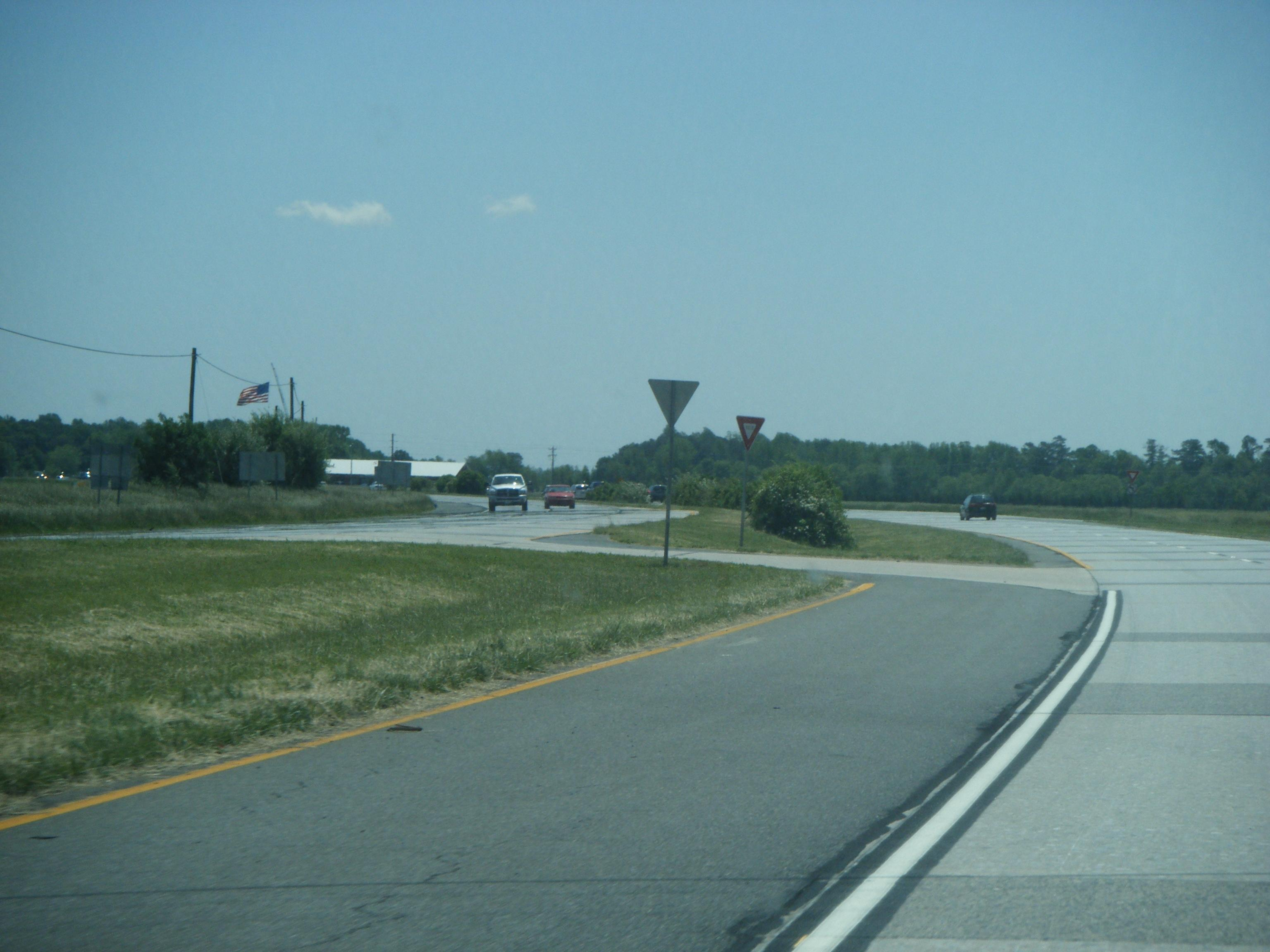 Southbound Delaware Route 1 at Frederica Road south of Frederica, Delaware.